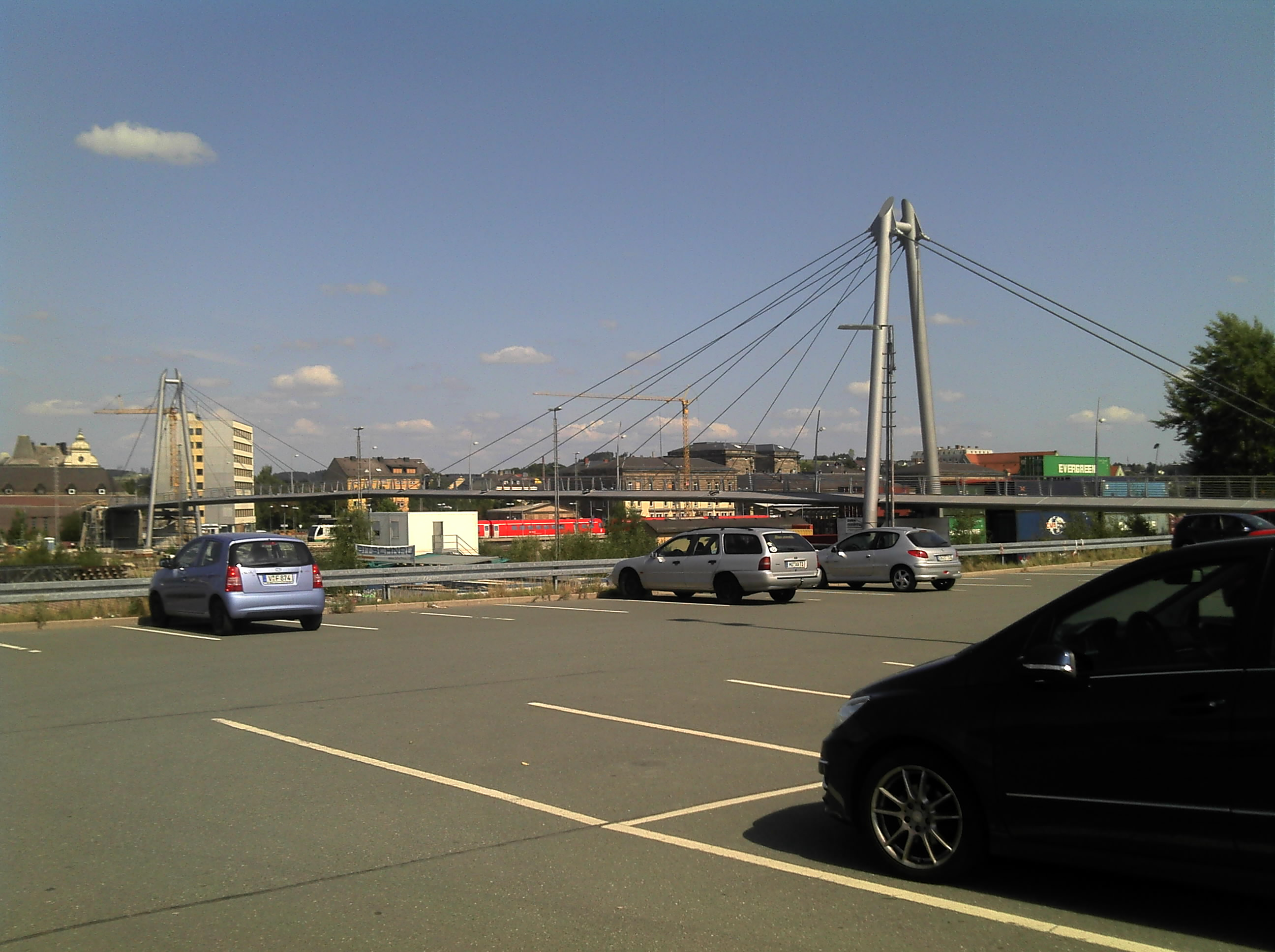 New Bridge above the rails at the Trainstation Hof, Germany